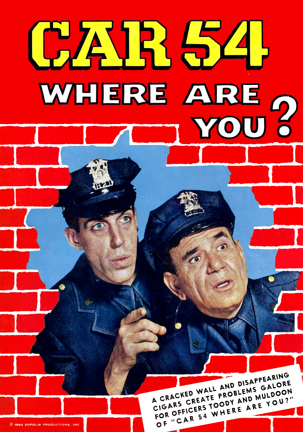 Fred Gwynne and Joe E. Ross on the cover of Car 54 Where Are You? number 2 (Dell Comics, June 1962). Logo removed from the upper left corner to give the appearance of a 1960s movie poster.